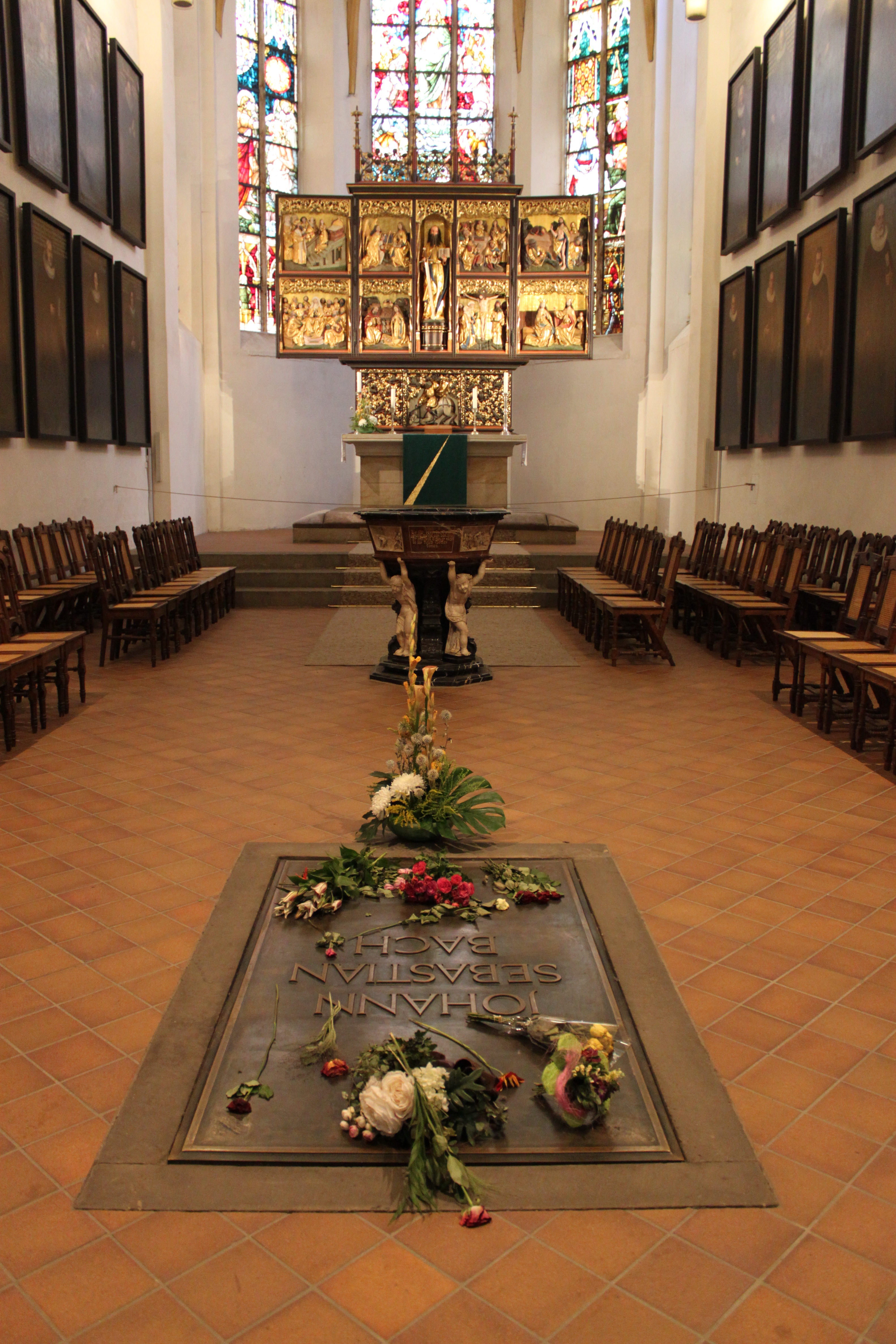 Bach's grave and the altar of St. Thomas Church, LeipzigUnknown